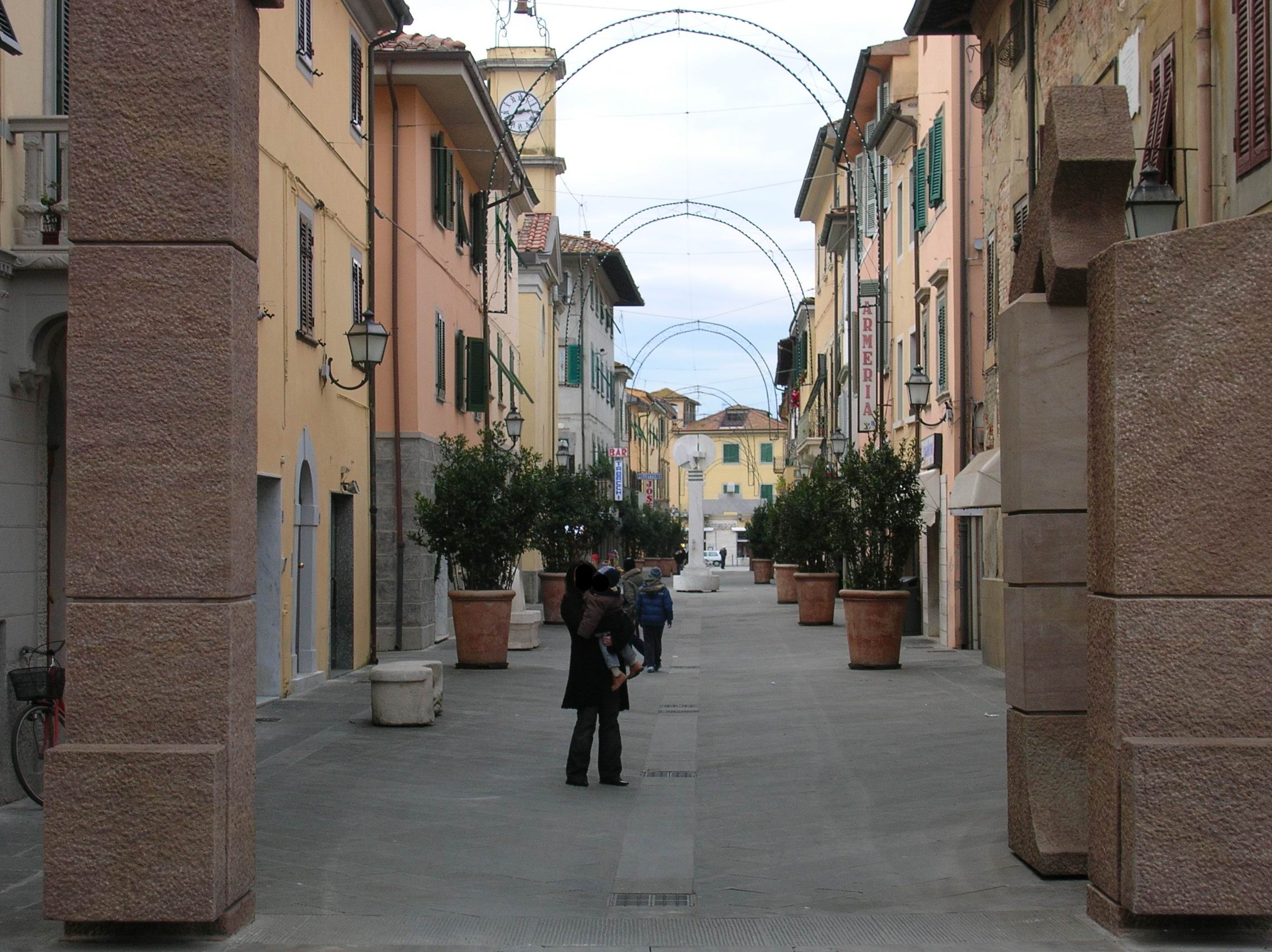 Ponsacco - particular of the center